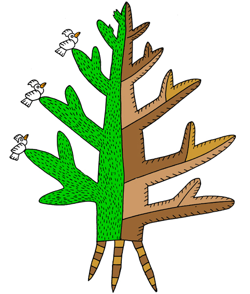 World tree motif from the S.E.C.C.